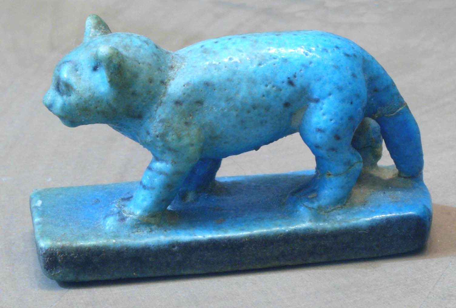 Figurine, Cat